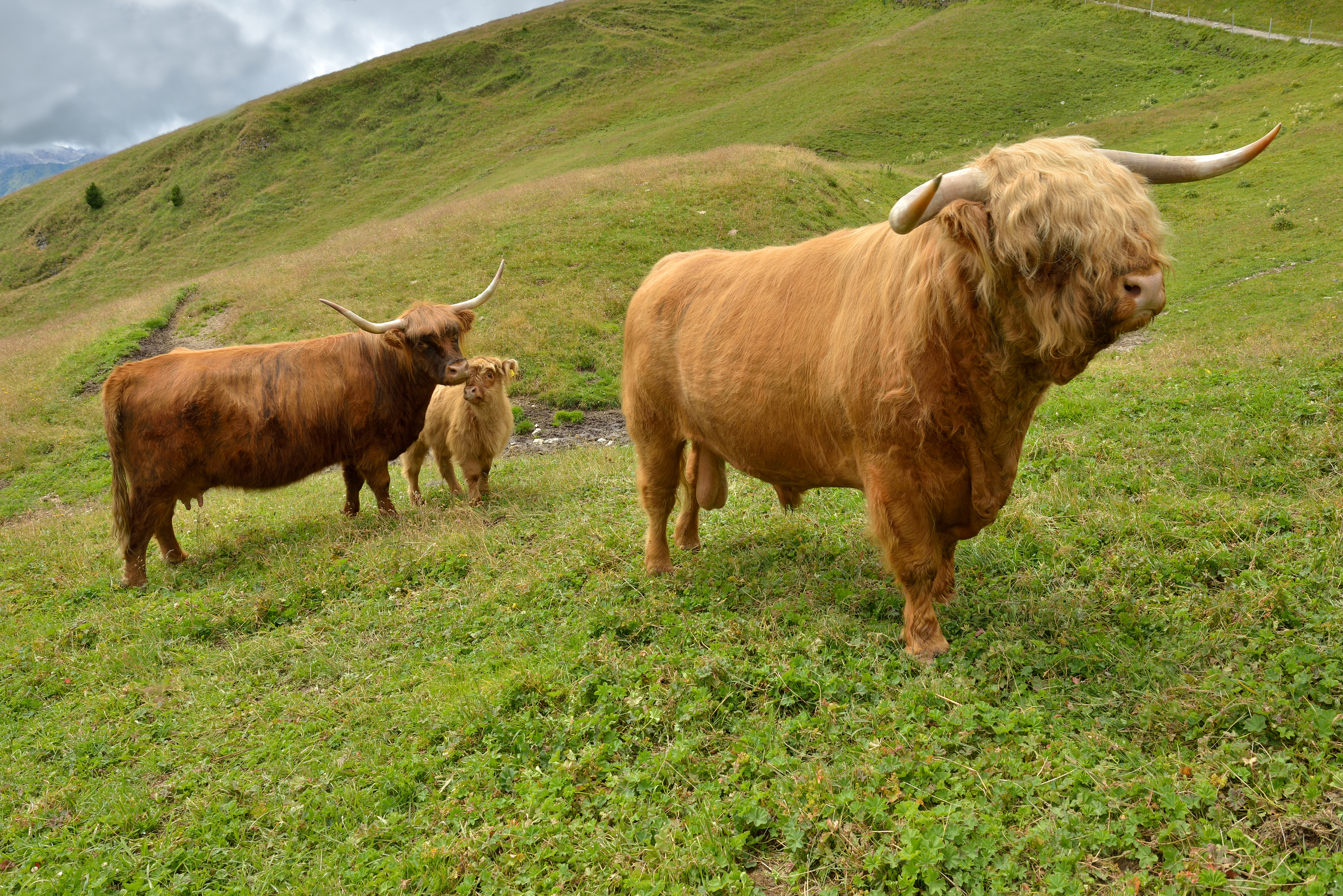 Highland cattle Bos (primigenius) taurus, bull, cow and calf on mount Secëda in Val Gardena - altitude 2450 mslm